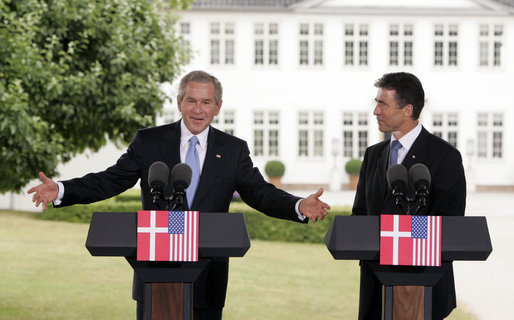 US former President George W. Bush and Danish Prime Minister Anders Fogh Rasmussen hold a joint press conference at the prime minister's official residence in Marienborg in Kongens Lyngby, Denmark.